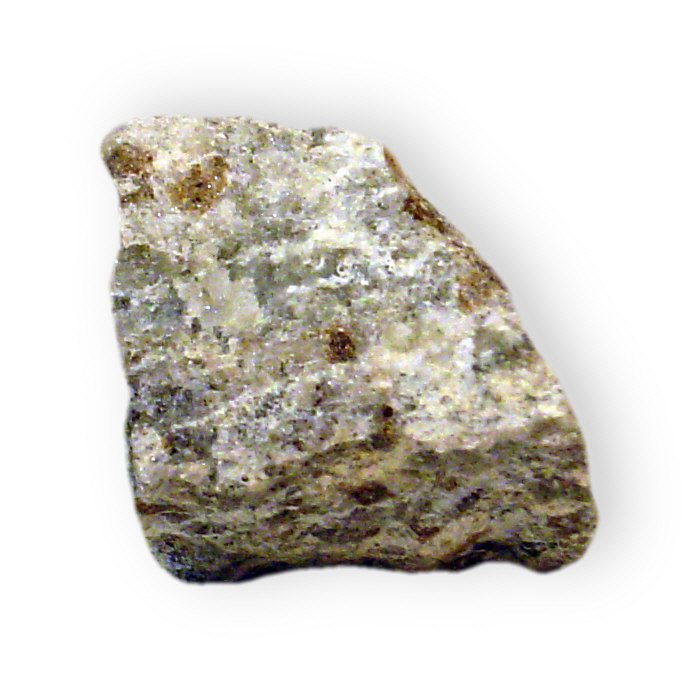 Afwillite on rock Hydrous calcium silicate. Locale: Crestmore Quarry, in Riverside County, California. These mineral images are free to use how you wish.